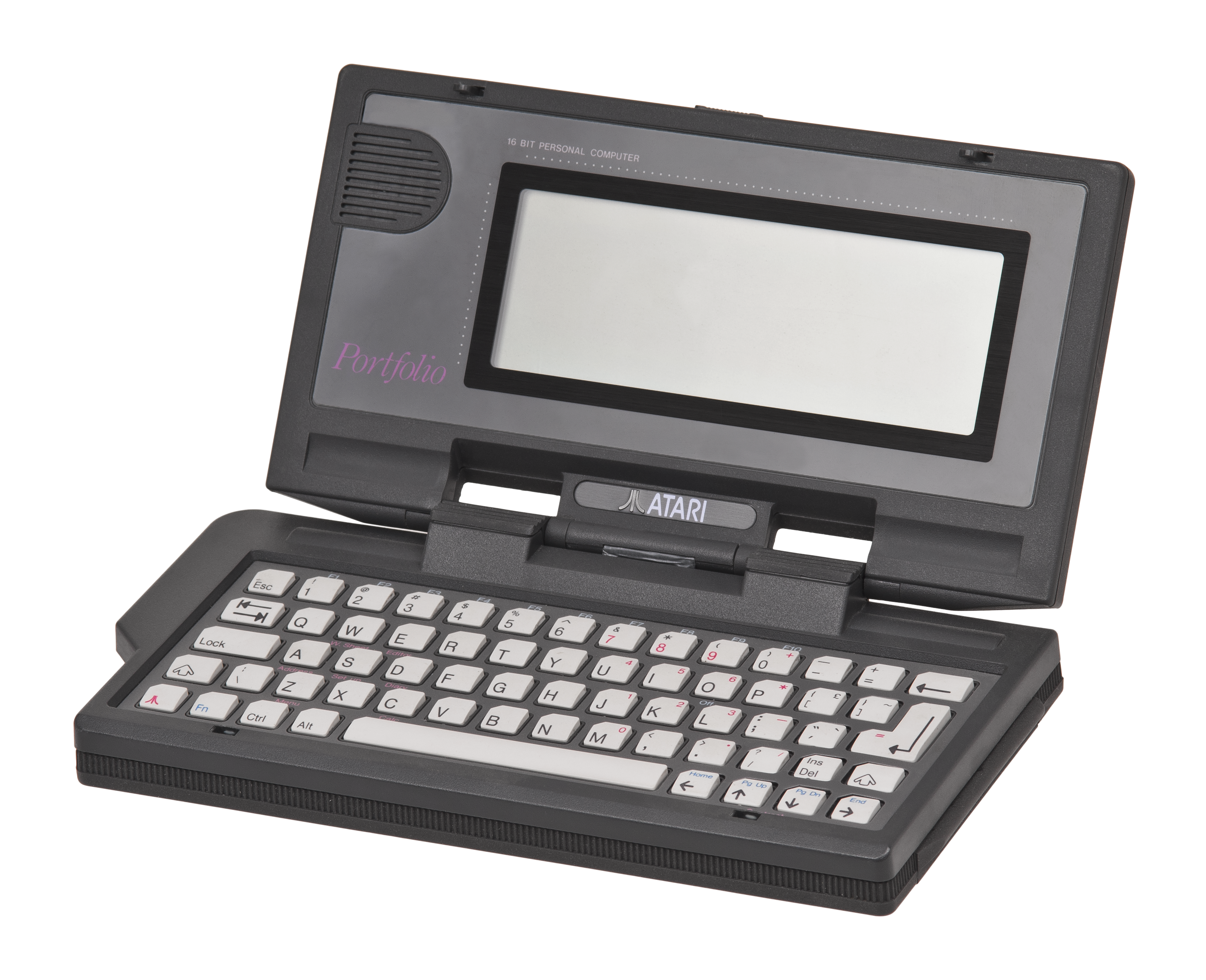 An Atari Portfolio, a portable 16-bit computer released in 1989.